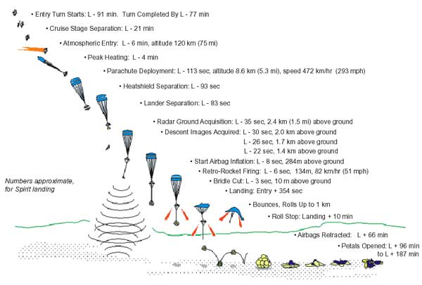 Spirit Entry Descent Landing.